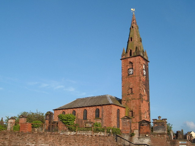 St Michaels Church. Dumfries. The graveyard is on the Burns Trail, and the Burns Mausoleum can be found in the graveyard. This photo was taken from by the statue of Jean Amour